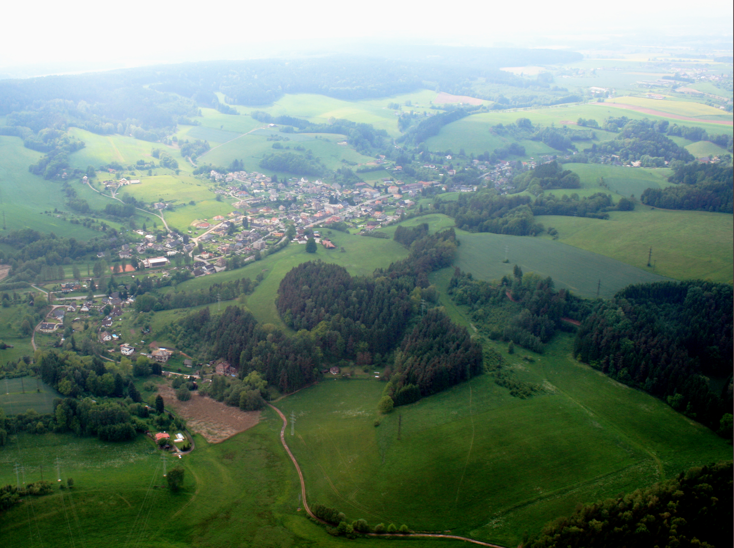 Village Dolní Radechová, near of town Náchod, from air, eastern Bohemia, Czech Republic